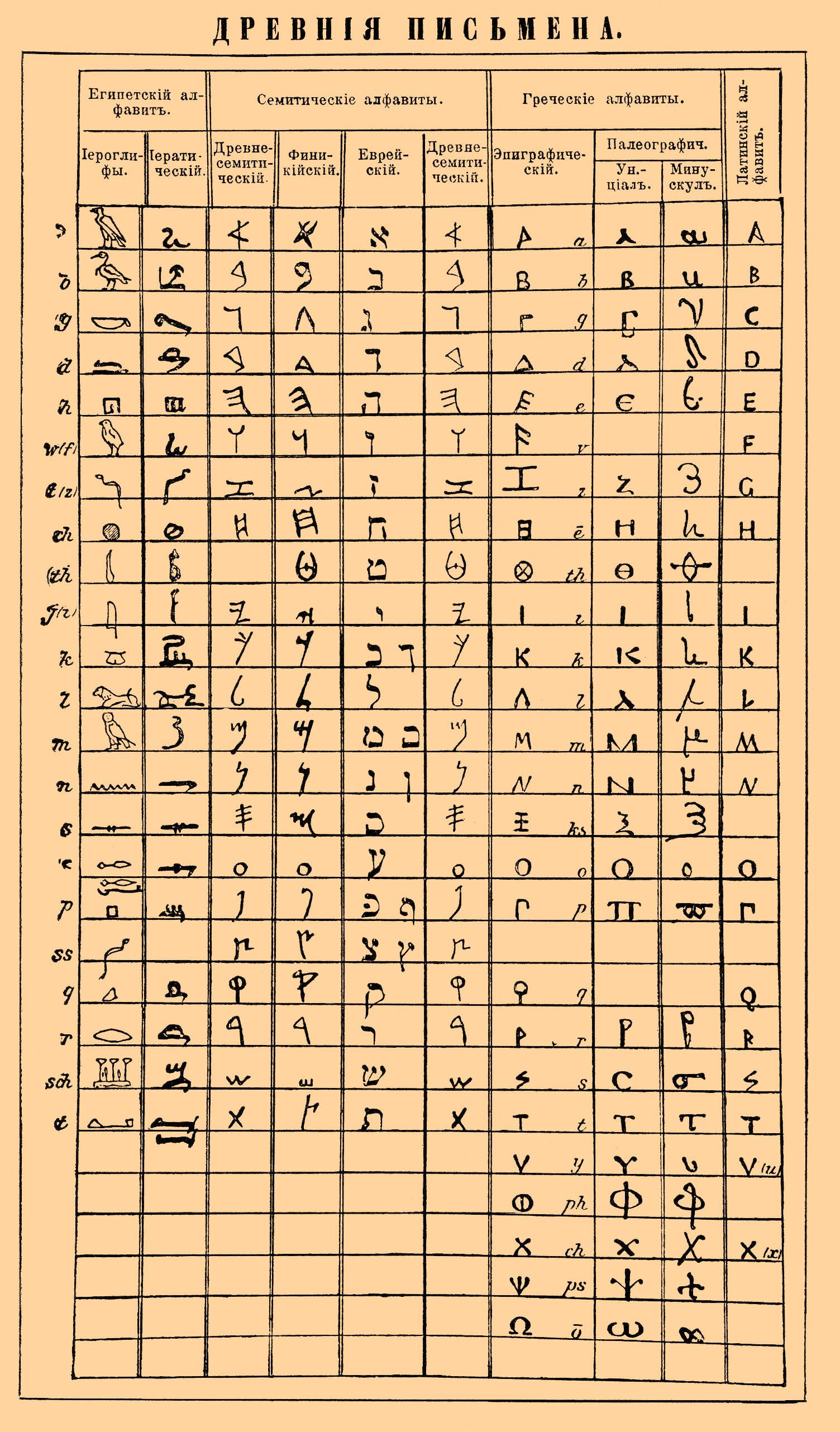 Illustration from Brockhaus and Efron Encyclopedic Dictionary (1890—1907)